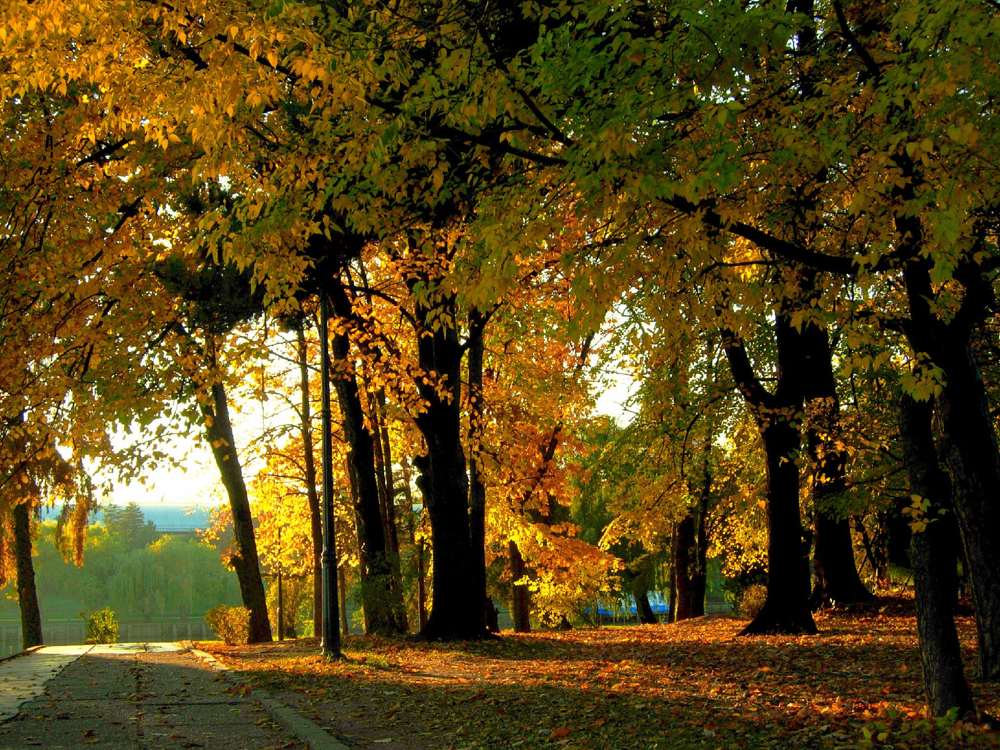 Parcul Herăstrău, Bucharest